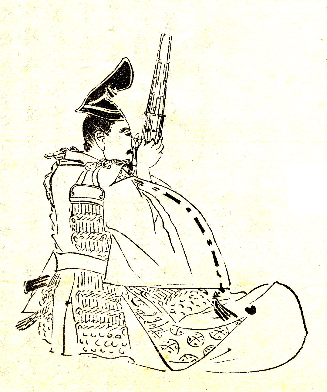 Wakiya Yoshisuke（脇屋義助）(aka Nitta Yoshisuke 新田義助) was a warrior in Japan in the the end of Kamakura era.This picture was drawn by Kikuchi Yosai（菊池容斎） who was a painter in Japan.